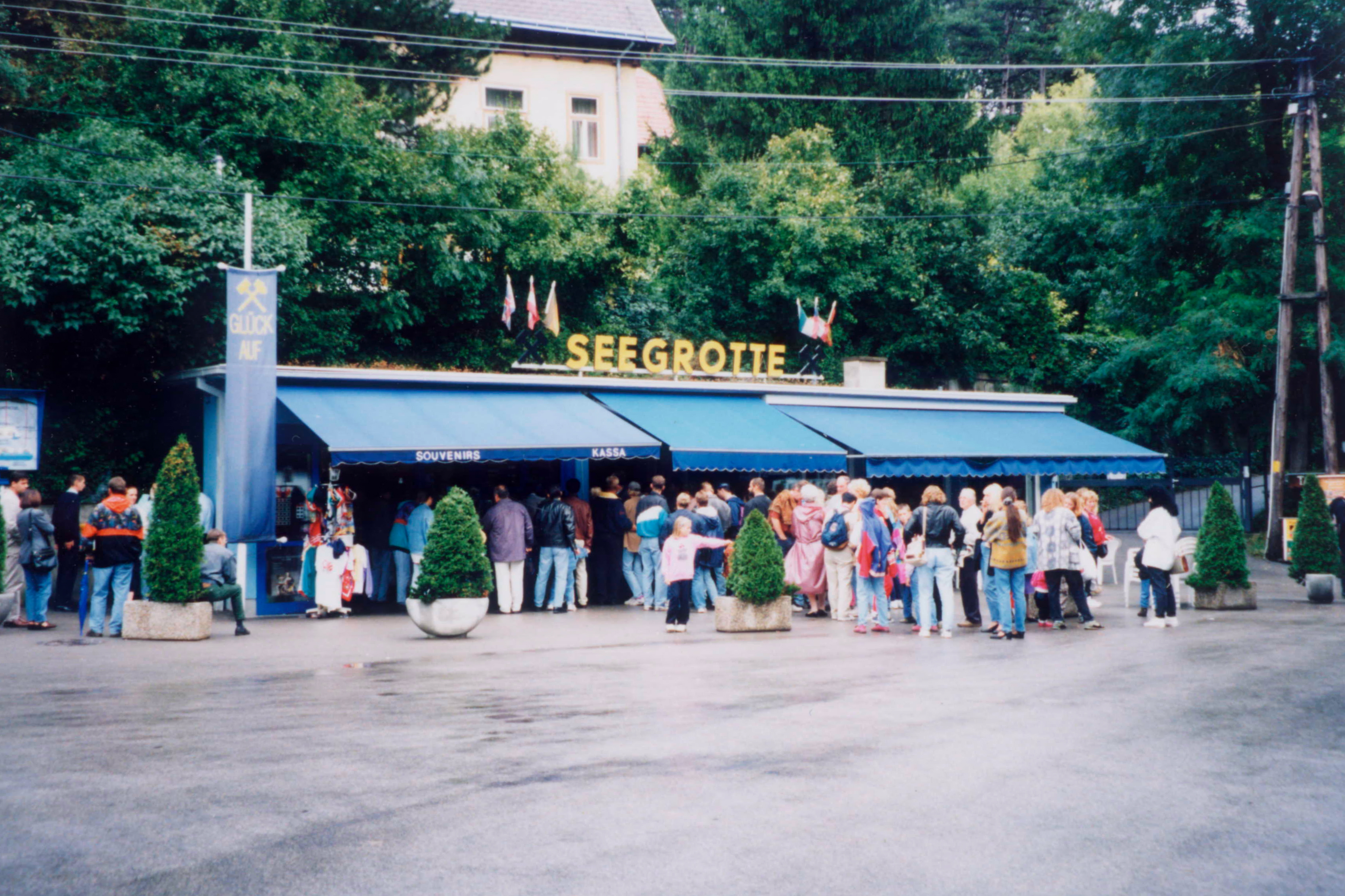 Former gypsum mine Seegrotte in Hinterbrühl, Lower Austria